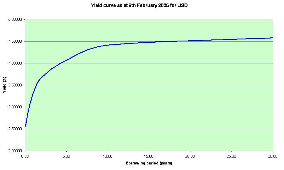 test